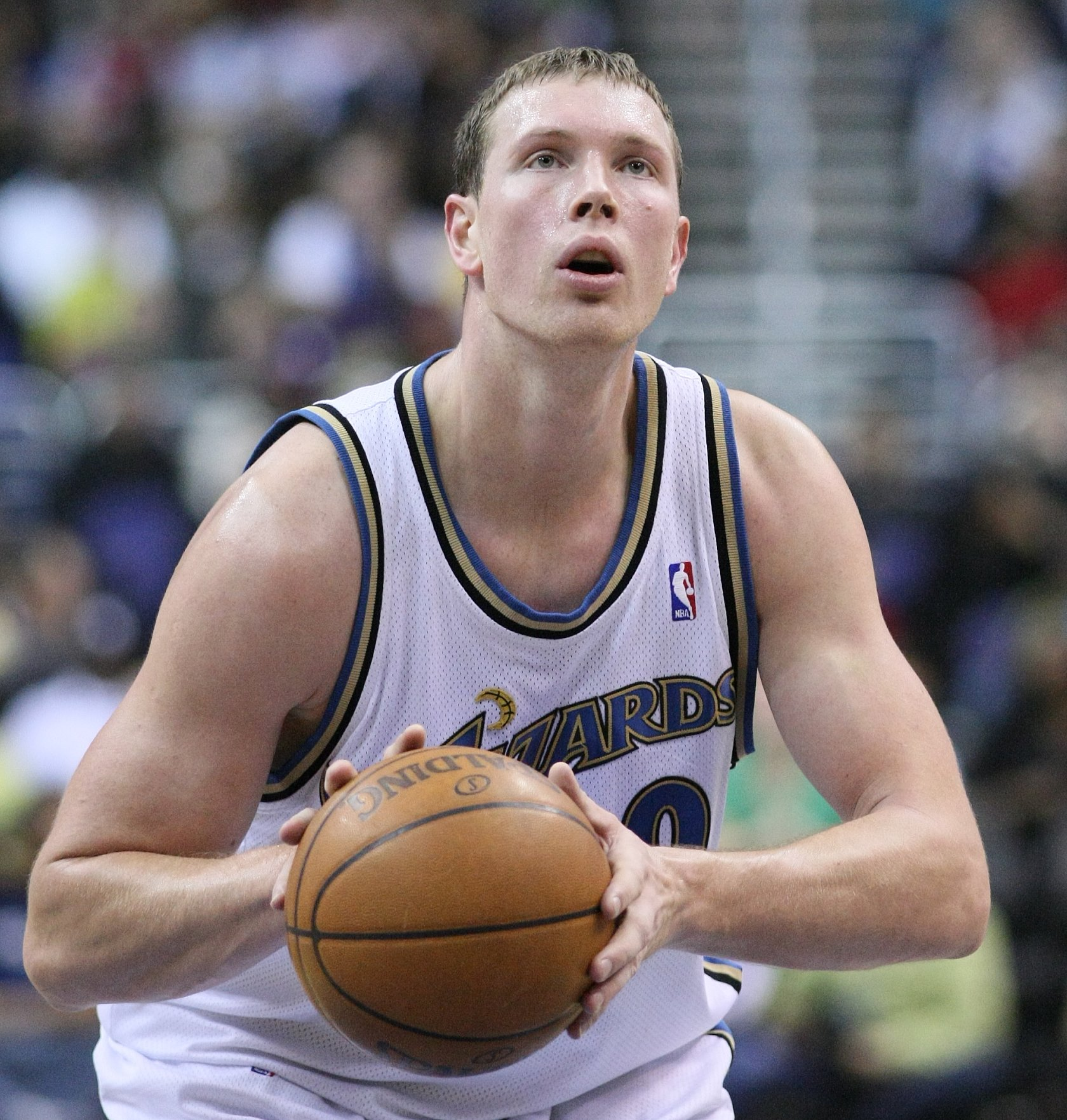 Darius Songaila shooting a free throw as a member of Washington Wizards.